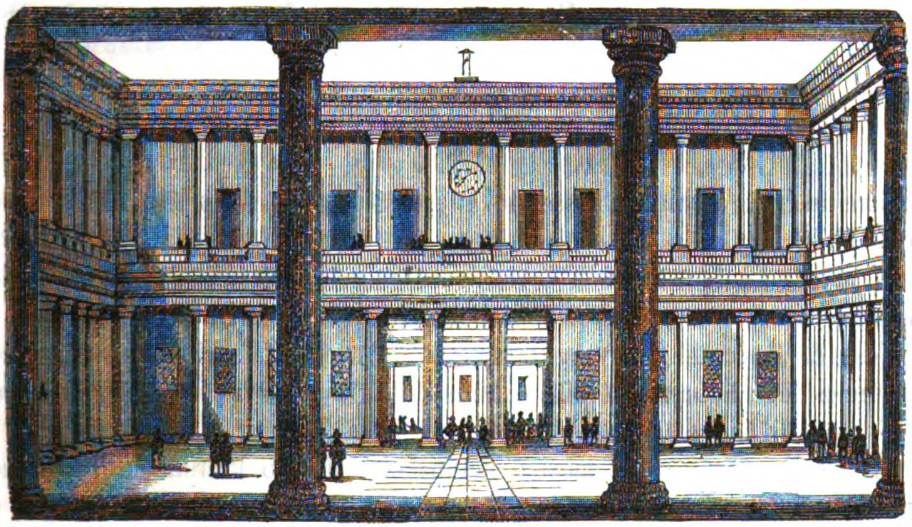 Cesare Cantù, Grande illustrazione del Lombardo Veneto, Tranquillo Ronchi, vol. I, Milano 1851, p. 211, cloister of "Collegio Elvetico" (Milan)